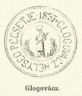 Stamp of Glogovác (now Vladimirescu) village, Arad County, from 1837.